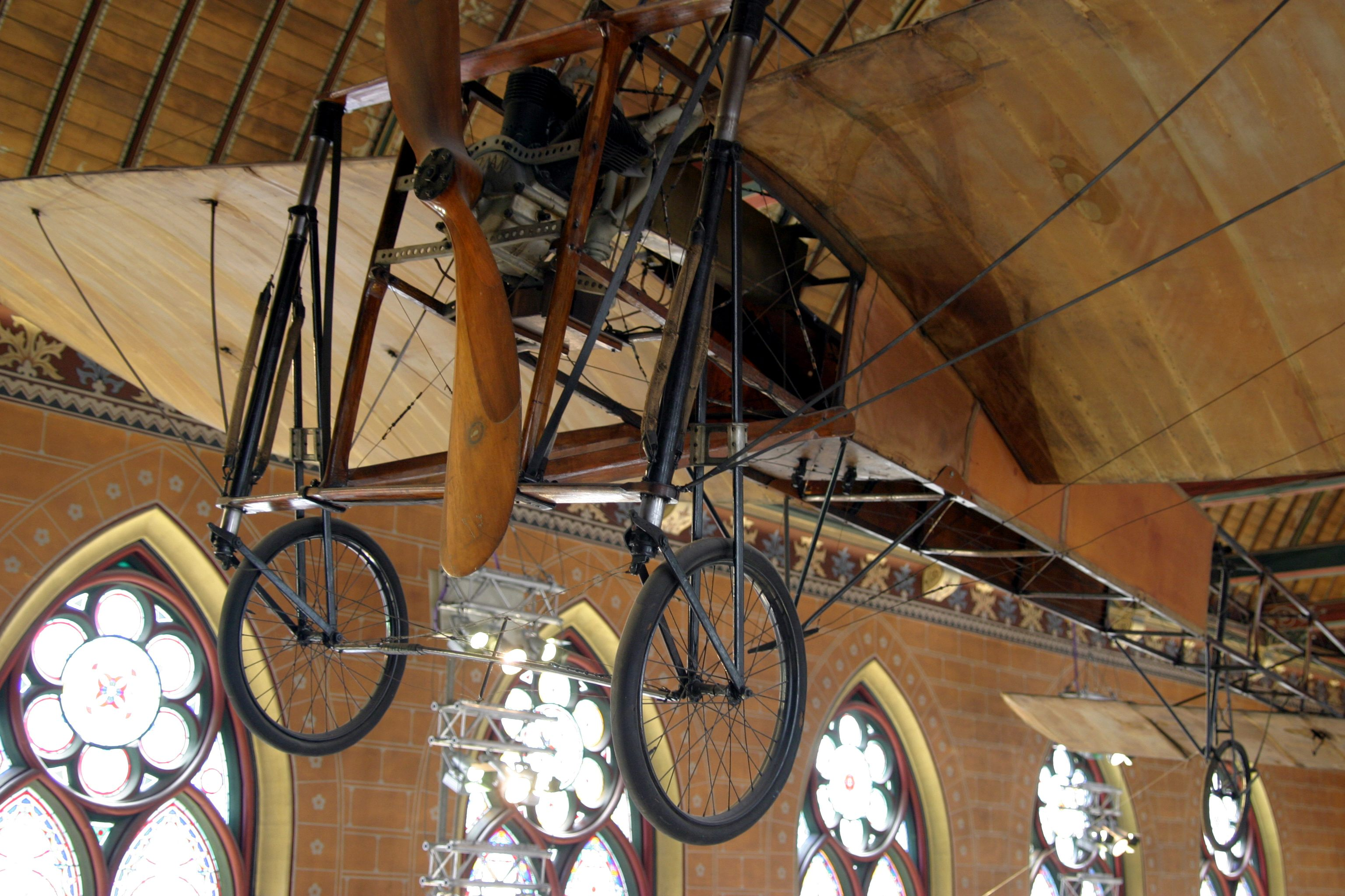 Landing gear of the Blériot XI.